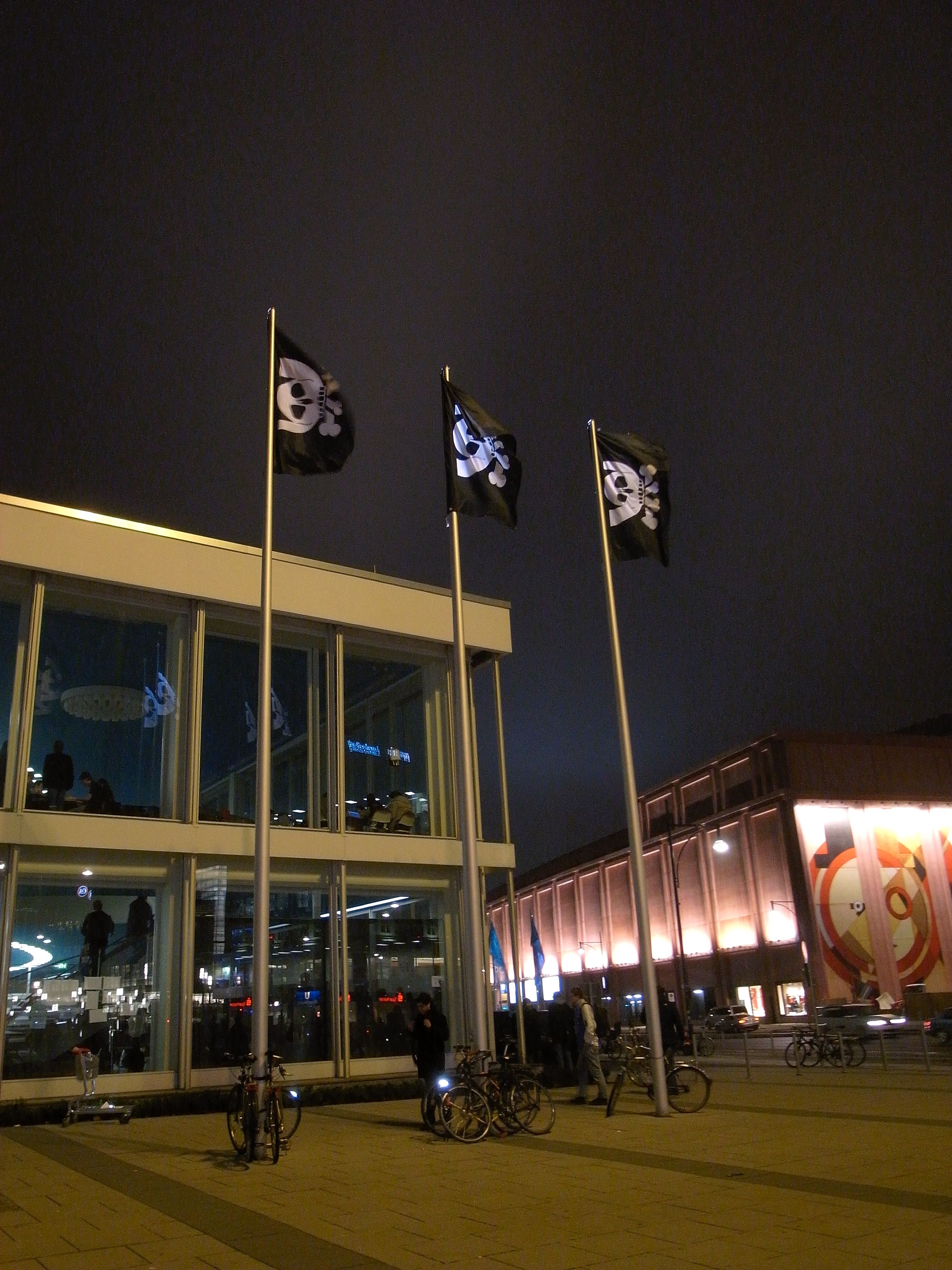 26C3 in Berlin 2009, Jolly ("Pesthörnchen") flags in front of the bcc